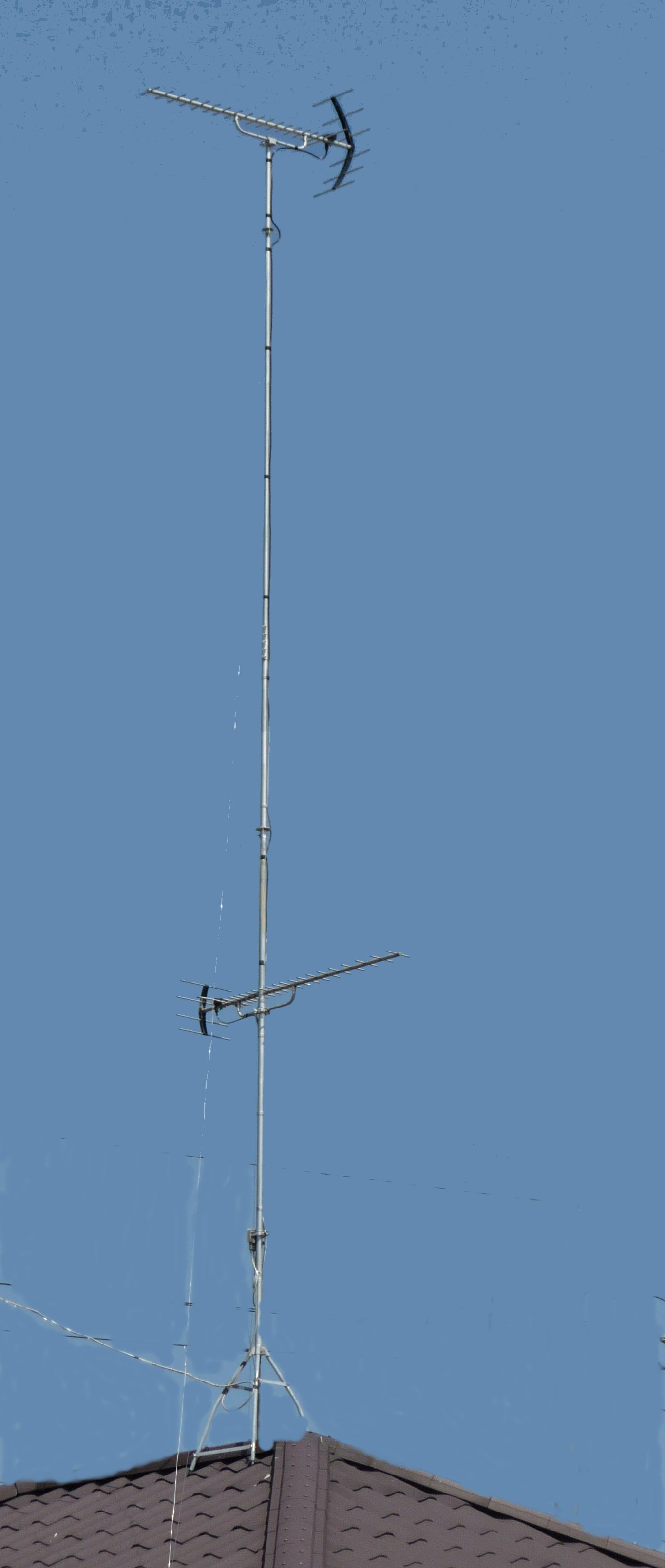 Two Digital terrestrial television receiving antenna on the roof, upper highly installed antenna facing to Tokyo Tower through over neighbor high building and lower one to Local Television Stations in Kant Plain of Japan.(For ISDB-T system)